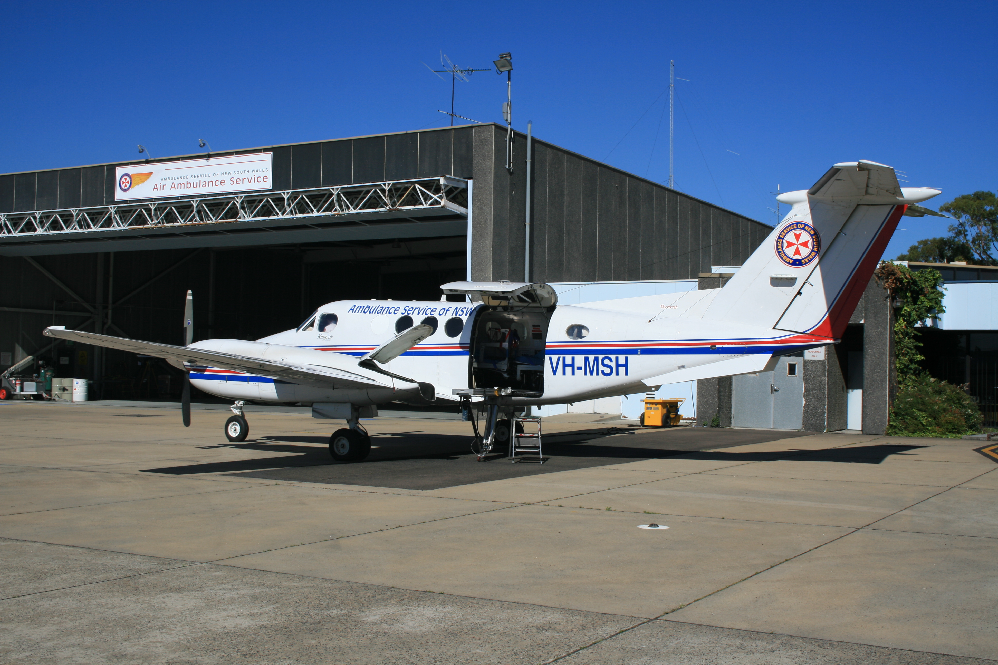 The Ambulance Service of New South Wales uses four Beechcraft B200 King Airs operated by the Royal Flying Doctor Service of Australia. One of them is depicted at Sydney Airport showing some of the modifications necessary for it to operate as an Air ambulance. Digital photo of B200 King Air VH-MSH taken on November 12 2007 by YSSYguy for use in the Beechcraft Super King Air article.